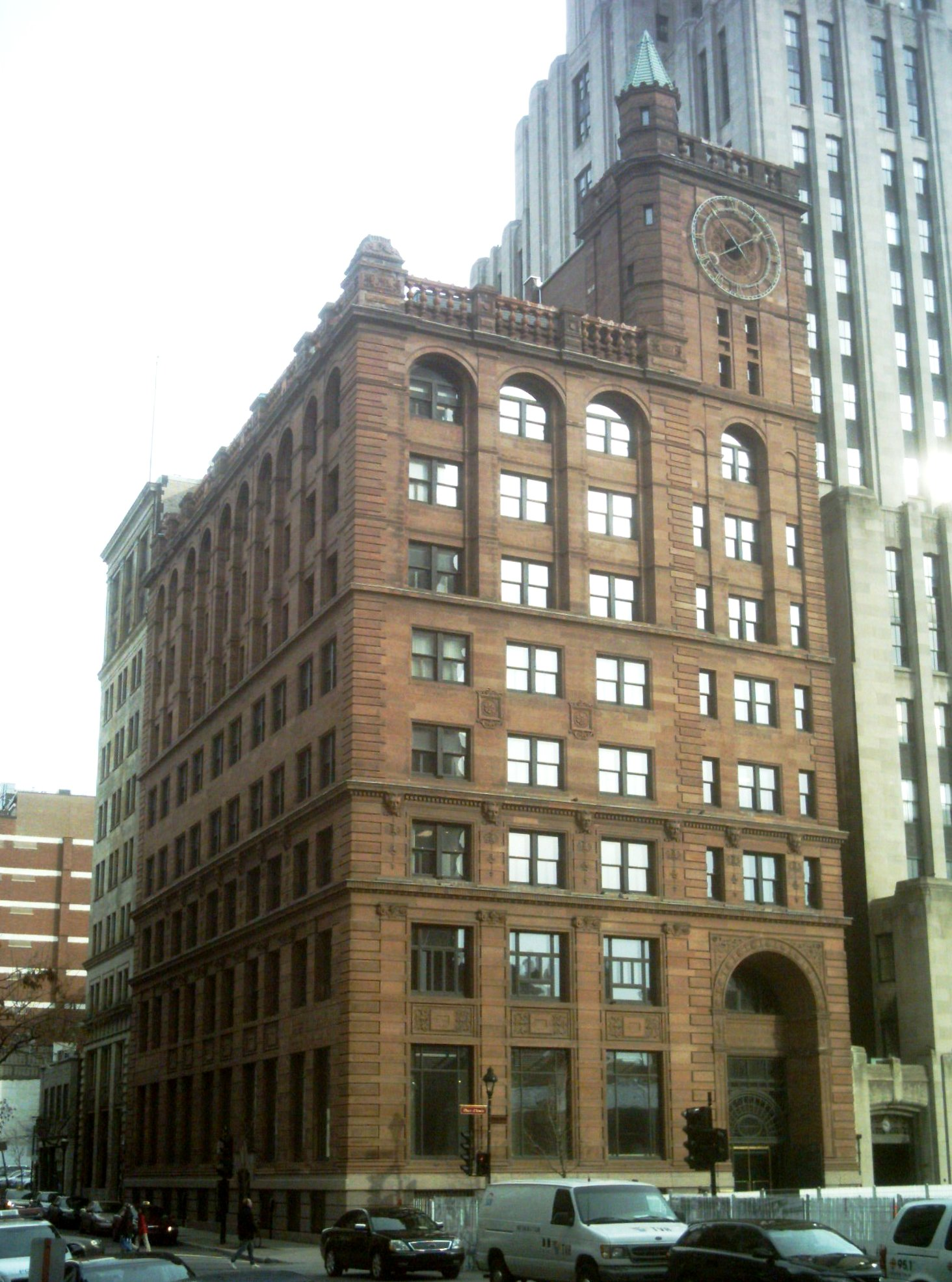 New York Life Building, Place d'Armes, Montreal, Quebec, Canada.